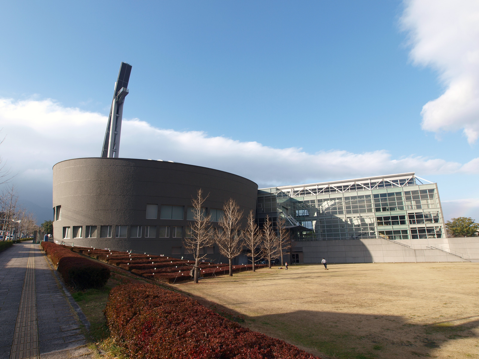 B-Con Plaza, Beppu City, Oita Pref., Japan